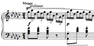 Excerpt from Chopin's Etude Op.10 No.5